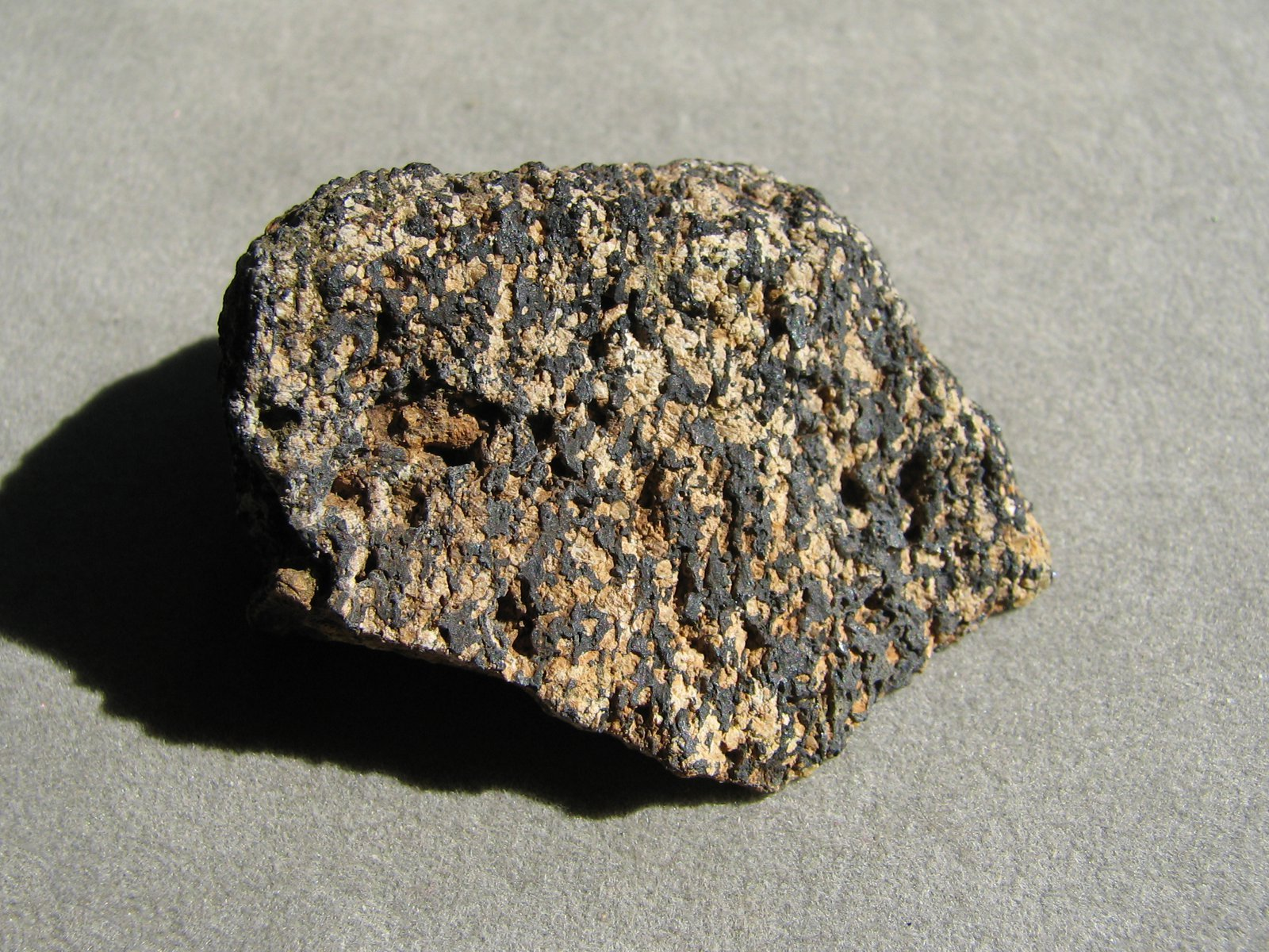 Nelsonite from Nelson County, Virginia USA. This is the official State Rock for Virginia. Specimen dimension 5 cm across.